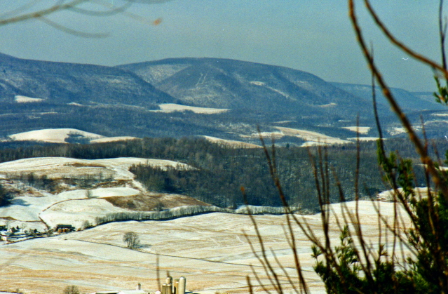 A view of Pine Knob, 2,700ft. from Schaefer Overlook. Photo by: Joe Calzarette